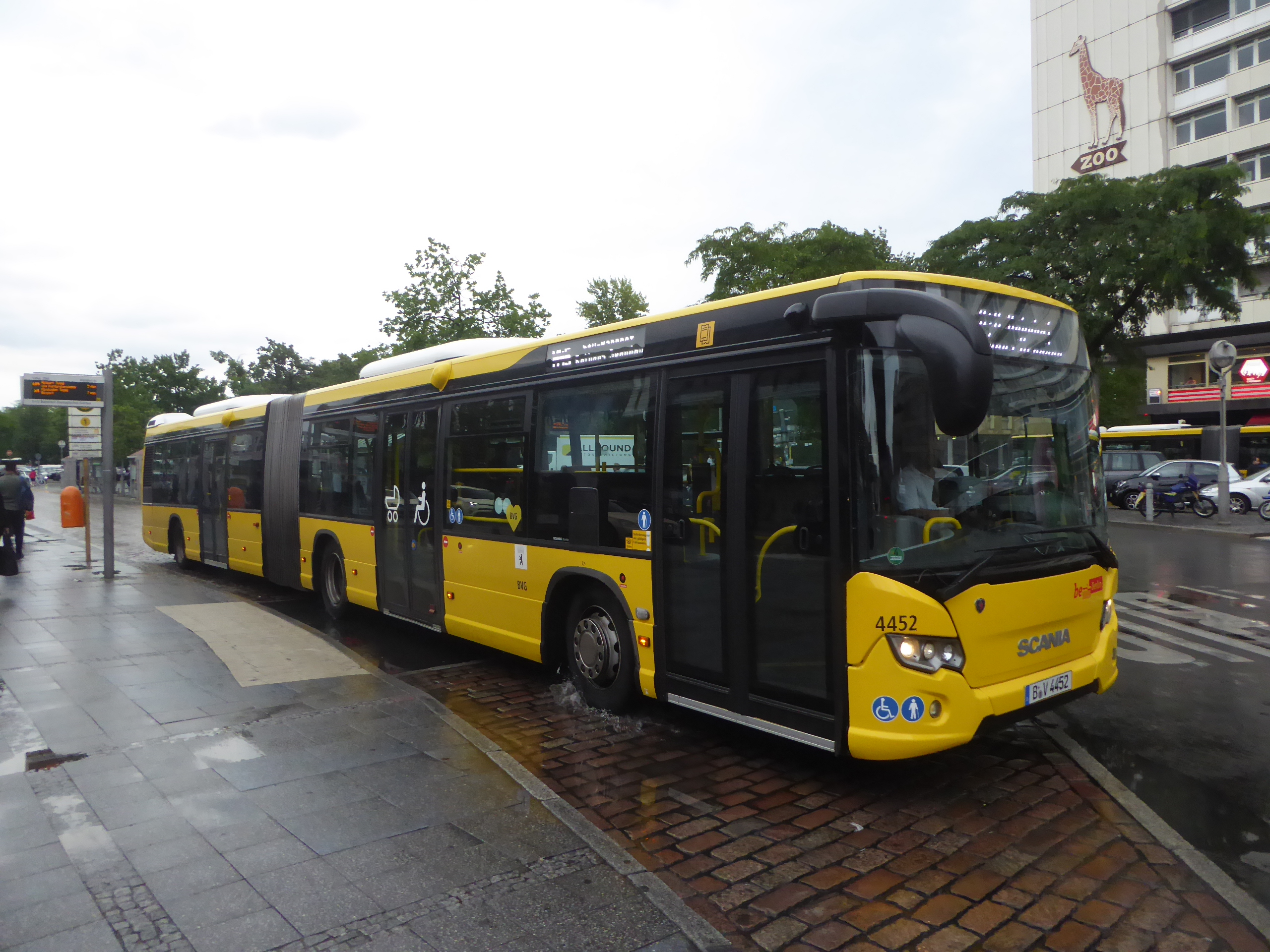 BVG bus line M45 at S+U-Bahnhof Zoologischer Garten in Berlin-Charlottenburg.